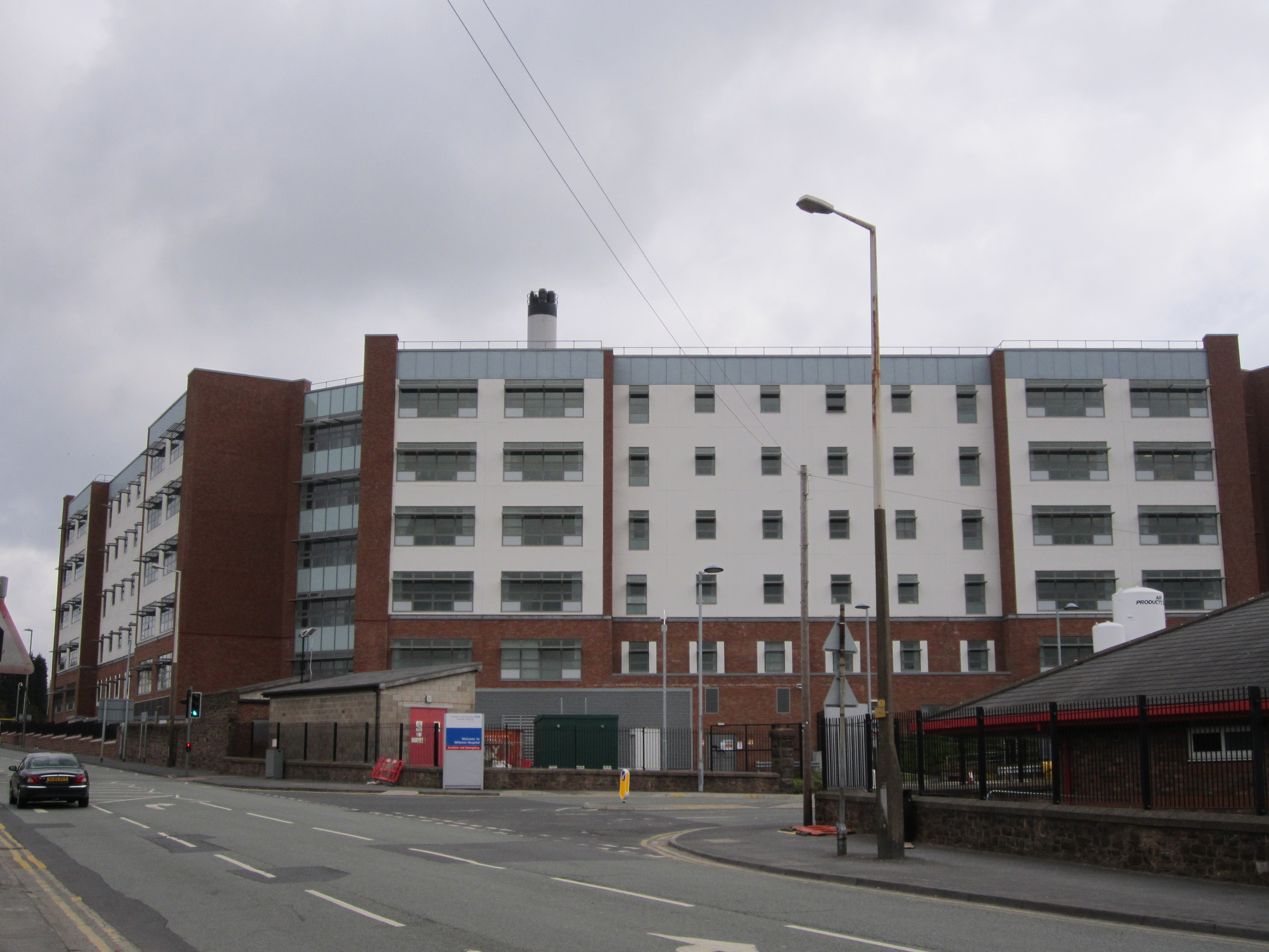 Whiston Hospital as seen from Dragon Lane, Whiston, Merseyside, England.